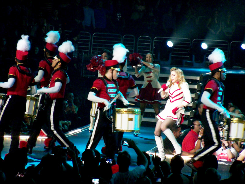 Madonna's MDNA Tour at Staples Center